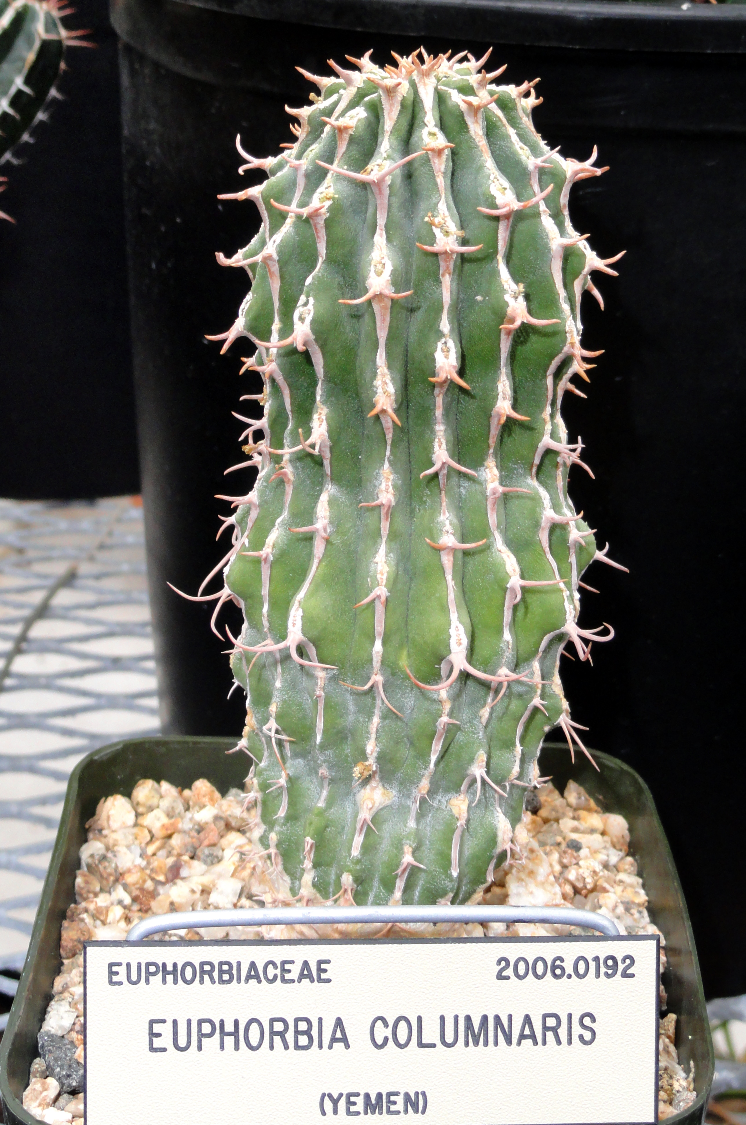 Euphorbia columnaris specimen in the University of California Botanical Garden, Berkeley, California, USA.